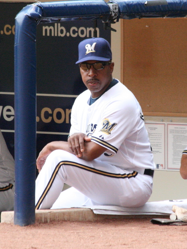 Willie Randolph sits in the Brewers dugout during a game at Miller Park